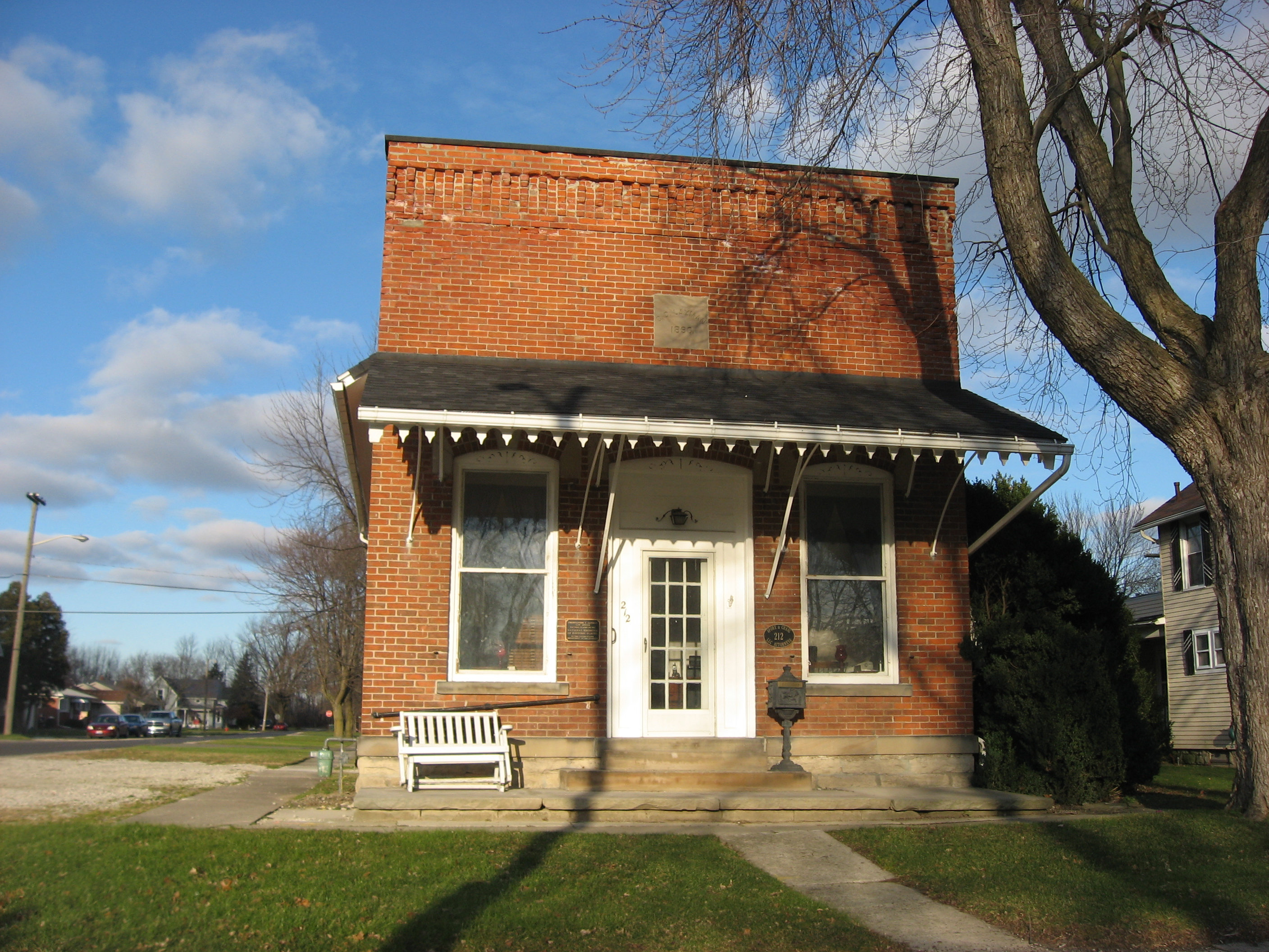 Front of the Christopher C. Layman Law Office, located at 212 W. First Street in Woodville, Ohio, United States. Built in 1890, it is listed on the National Register of Historic Places.